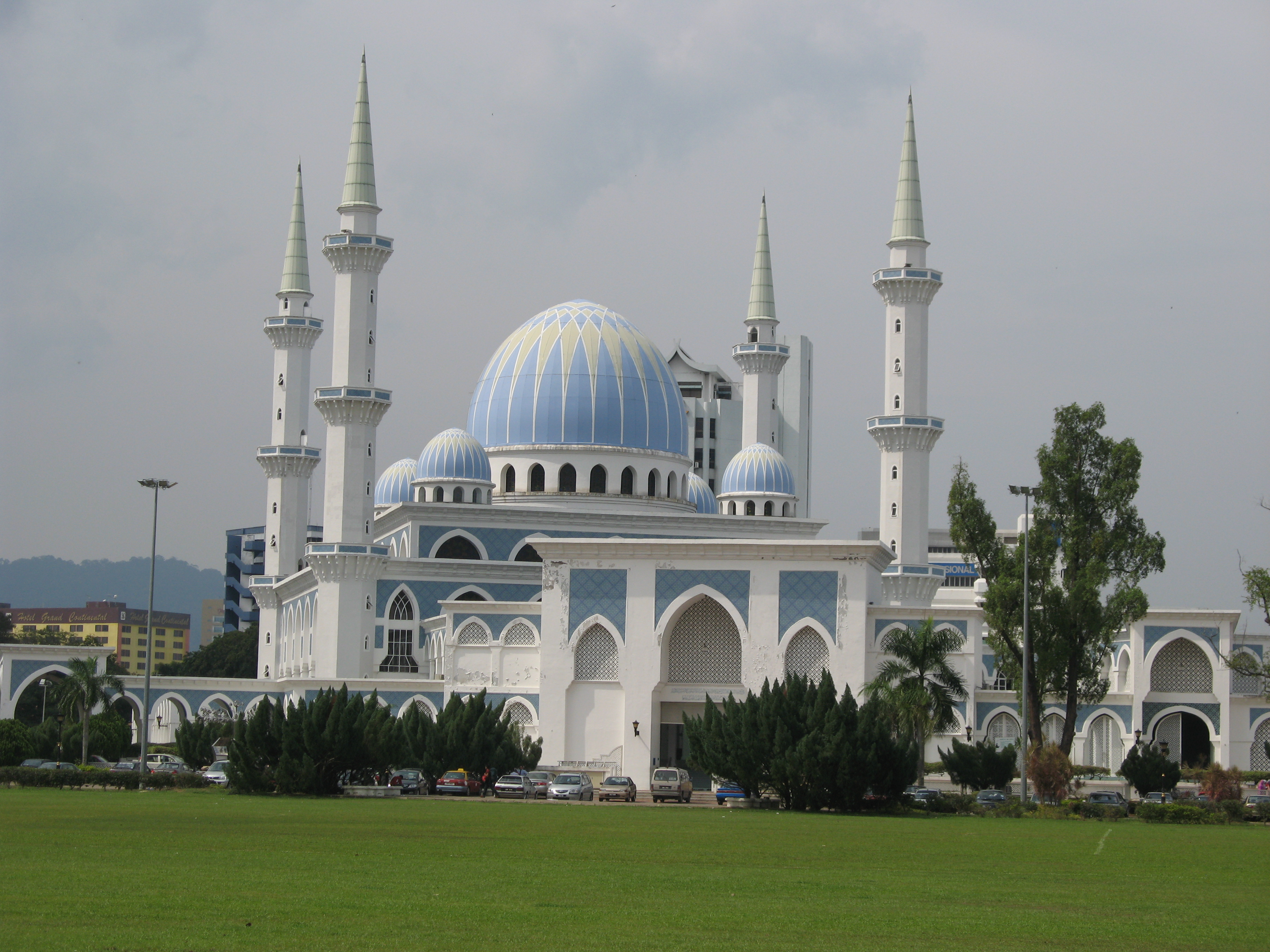 Sultan Ahmad I Mosque, Kuantan, Pahang, Malaysia. Also the State Mosque of Pahang.